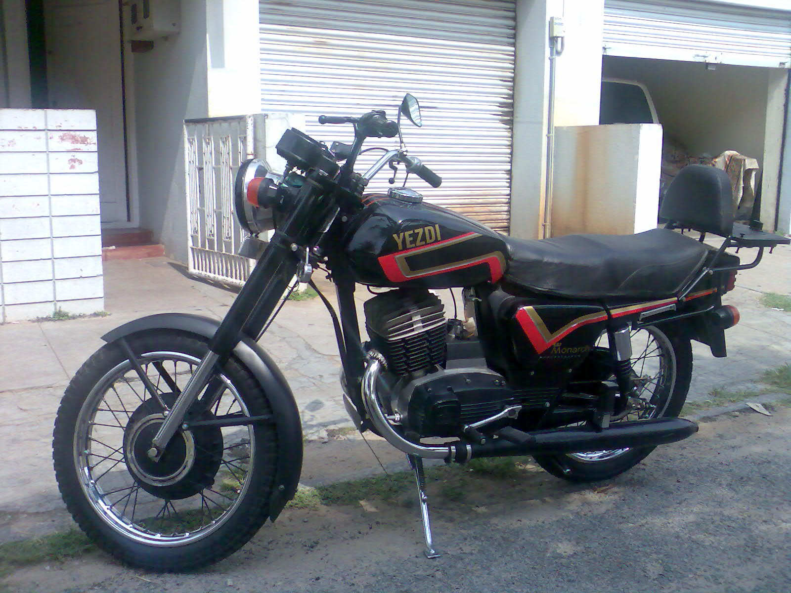 Yezdi Monarch - Manufactured by Ideal Jawa, Mysore This one is a 96 model owned by Gavin Wilson of Mysore